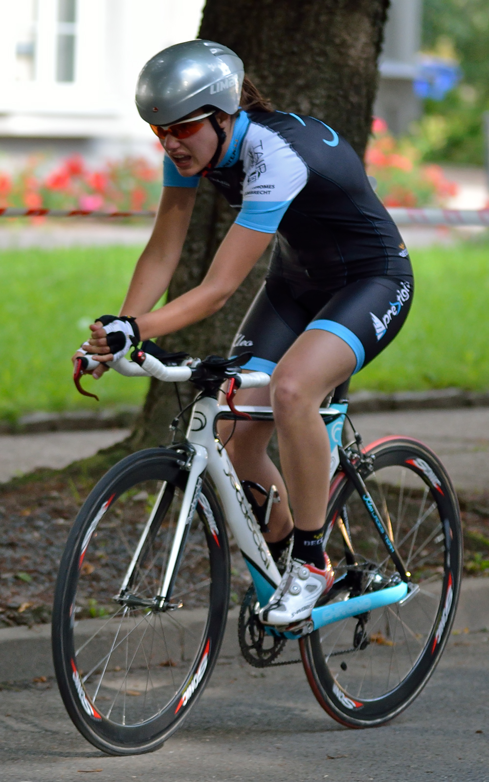 Anne Arnouts from the Kleo Ladies Team during the Women's Tour of Thuringia 2012 in Zwickau, Germany.